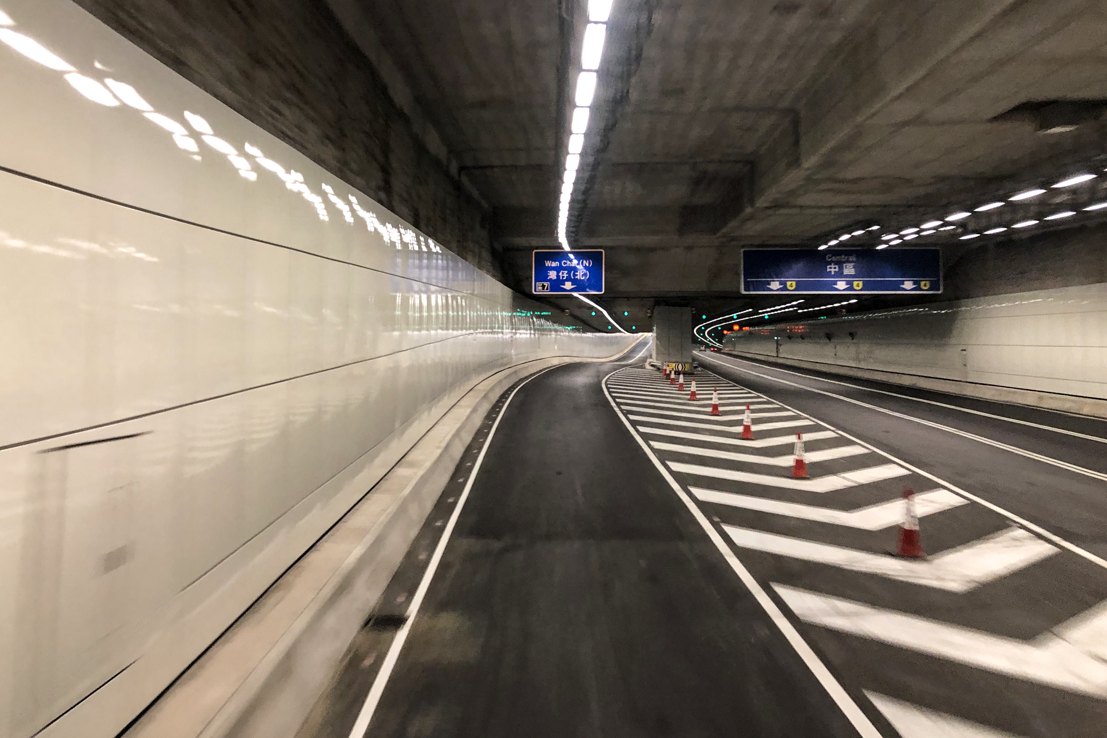 720X left the bypass via this exit.